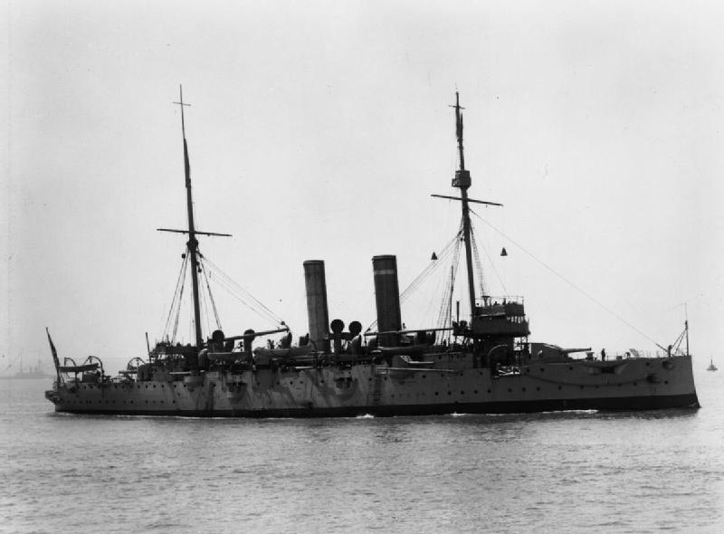 British Edgar class protected cruiser HMS ENDYMION